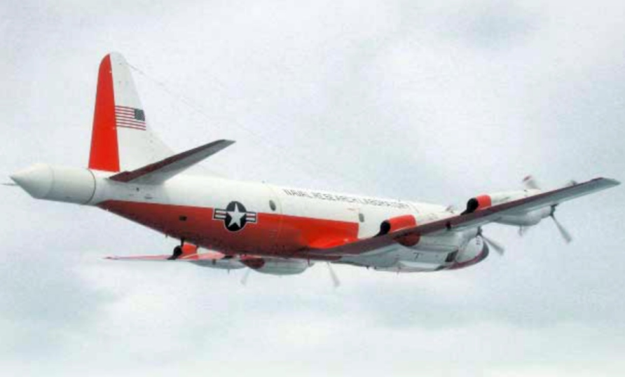 A U.S. Navy Lockheed NP-3D Orion from scientific develpoment squadron VXS-1 Warlocks, based at Naval Air Station Patuxent River, Maryland (USA), in flight in 2005. This aircraft was used in the "Bow Echo and Mesoscale Convective Vortices Experiment (BAMEX)". In 2005 VXS-1 used four NP-3D Orion and had a staff of 13 officers, 66 enlisted and 12 civilians. VXS-1 was established on 13 December 2004 and was known before as the "U.S. Naval Research Laboratory Flight Support Detachment".